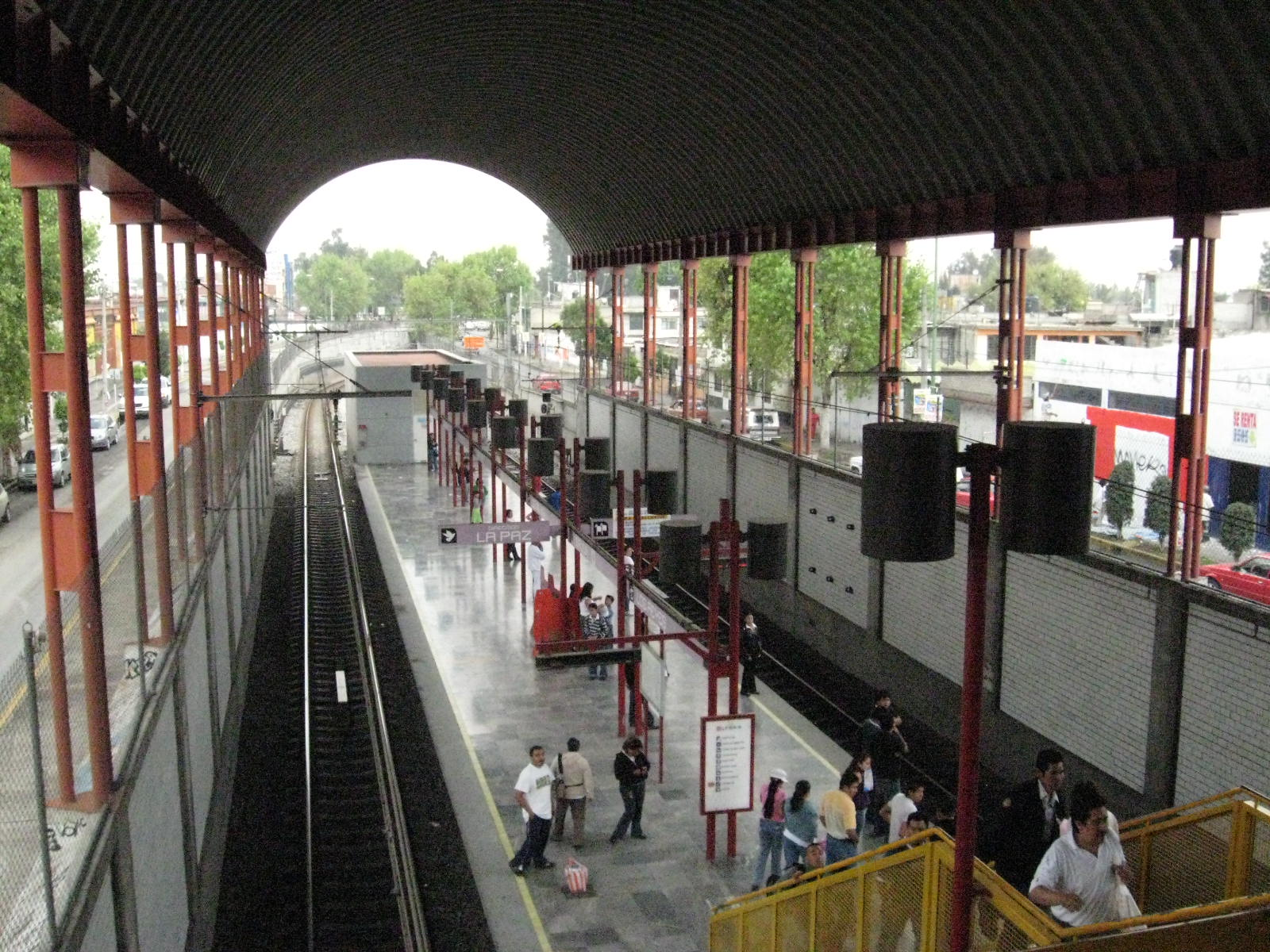 View of platform of Metro station Los Reyes located on Line A of the Mexico City Metro system